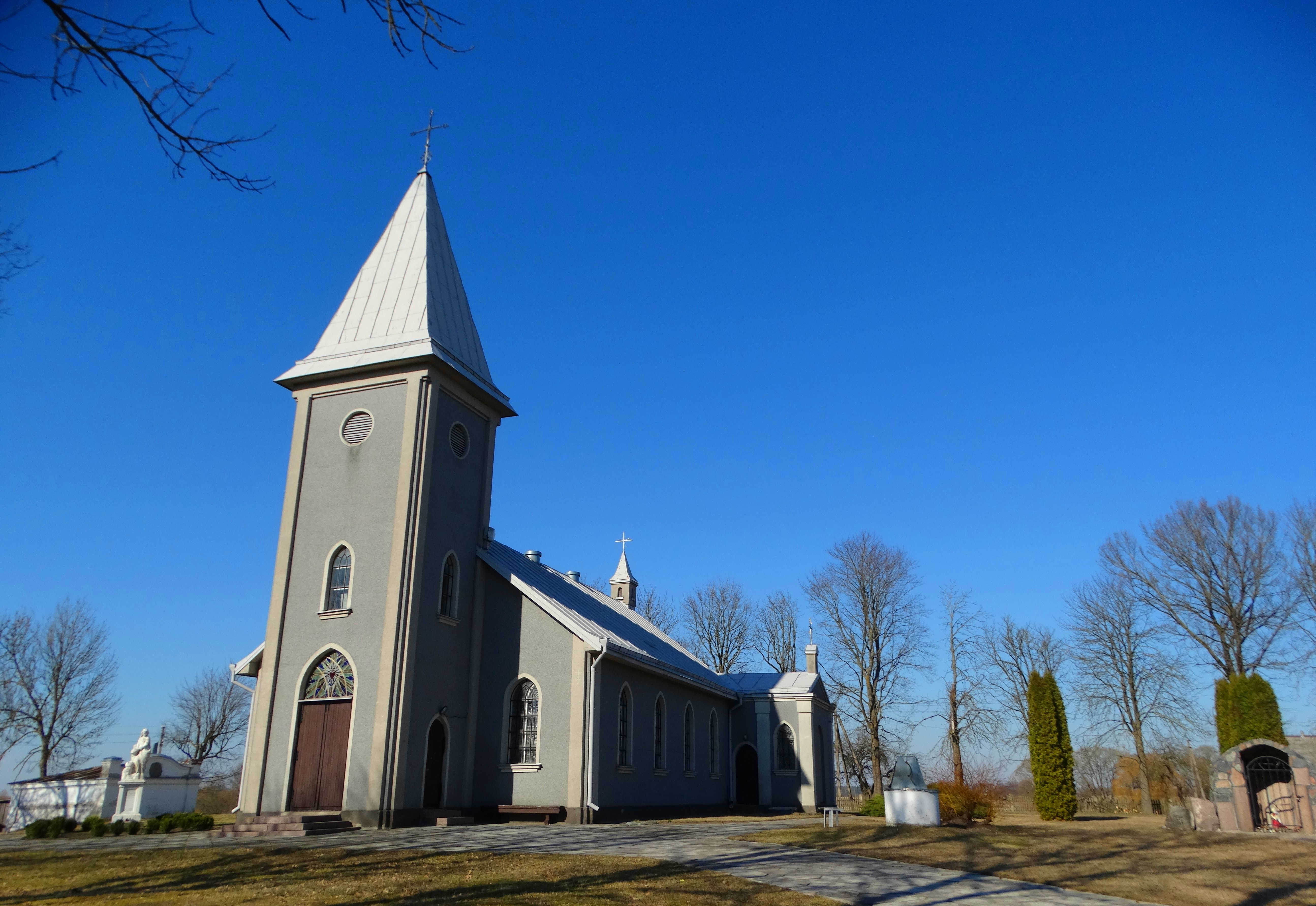 Holy Trinity Church, Šaukėnai, Kelmė district, Lithuania